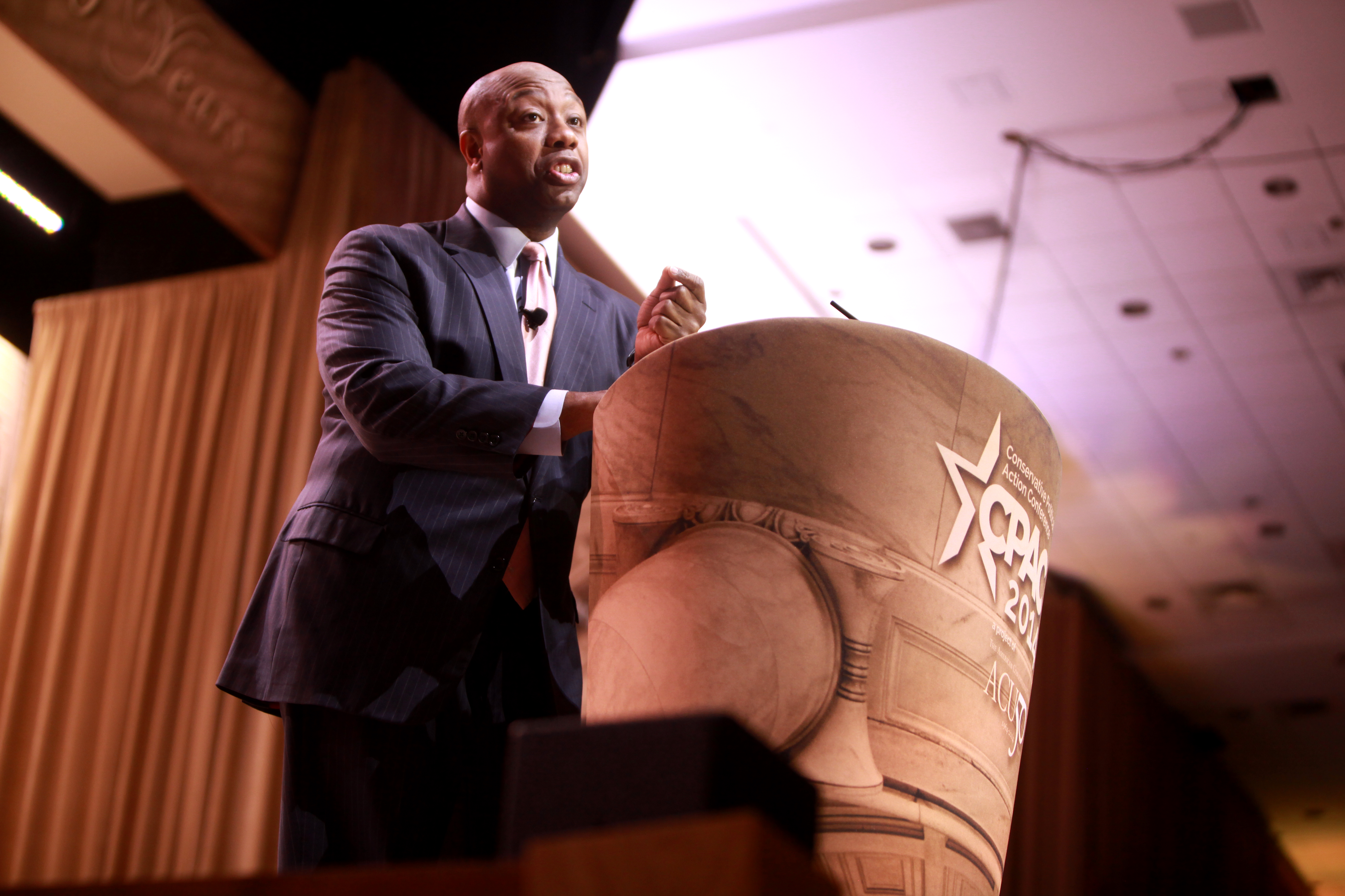 Tim Scott speaking at CPAC 2014 in Washington, DC.